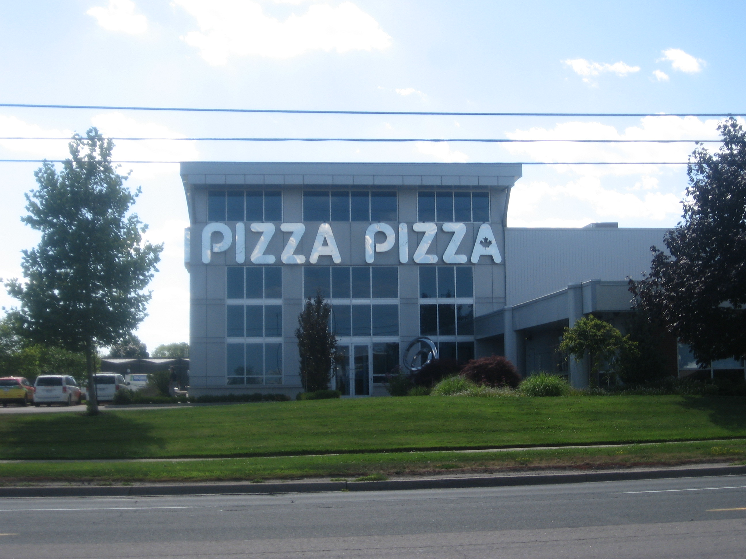 The Pizza Pizza Corporate headquarters at 500 Kipling Ave. in Etobicoke, Ontario, Canada.